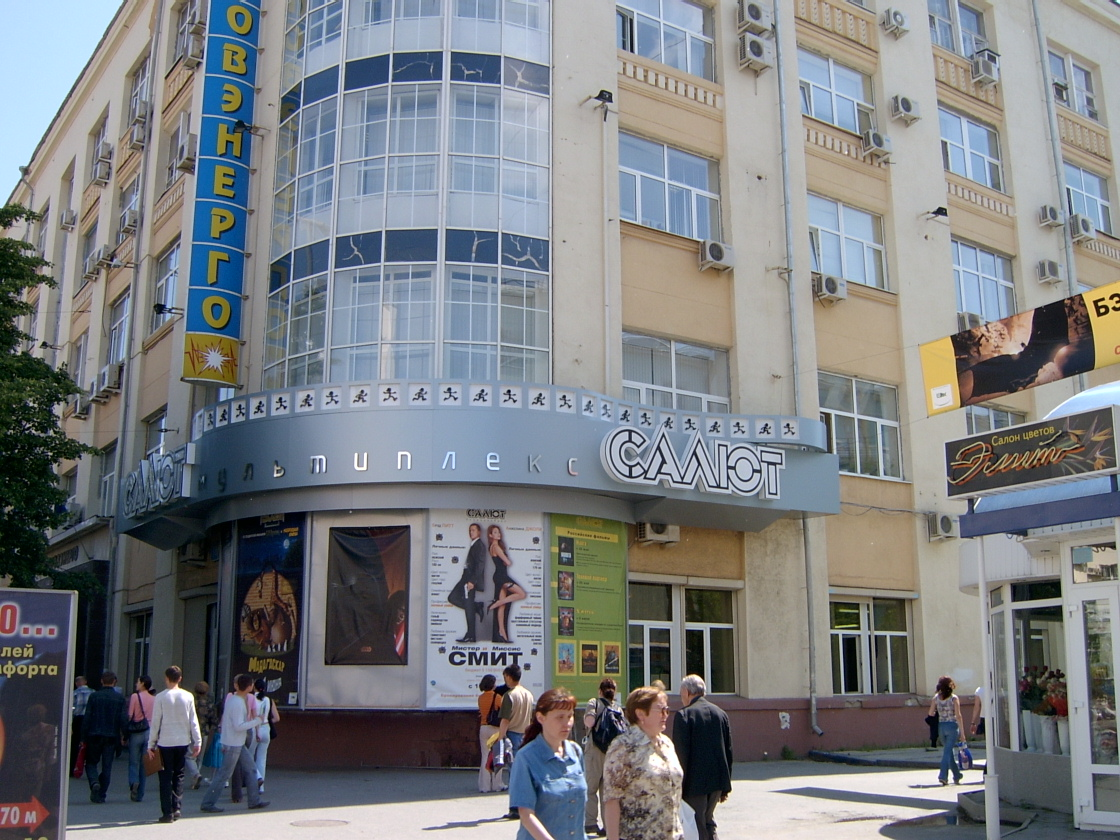 Frontside of the Salyut cinema in Yekaterinburg, Russia